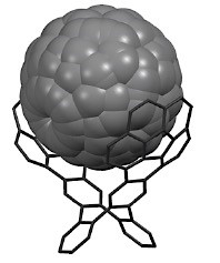 WaseemFig7